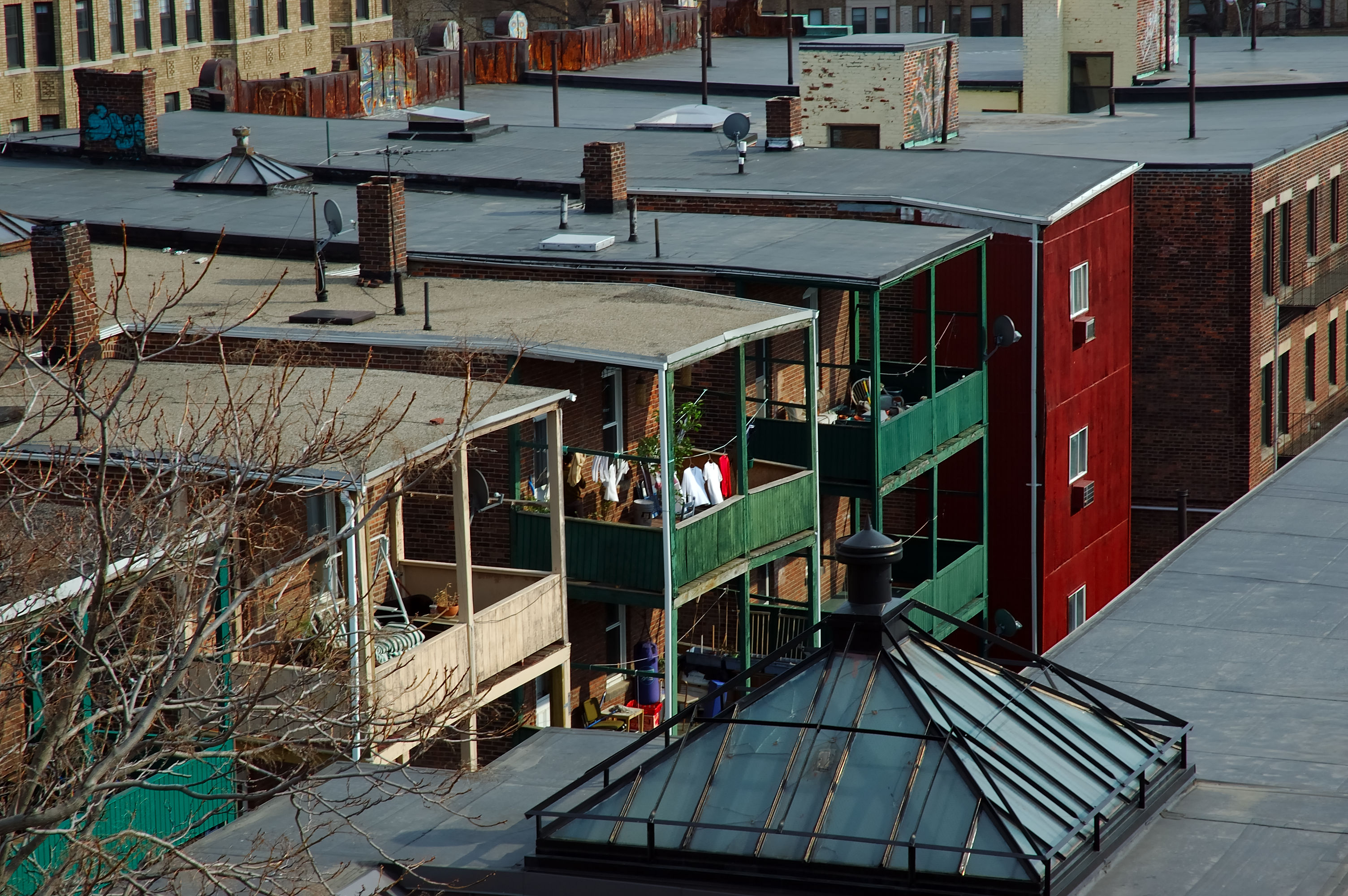 Street scene taken from roof of building in Allston, MA, USA.